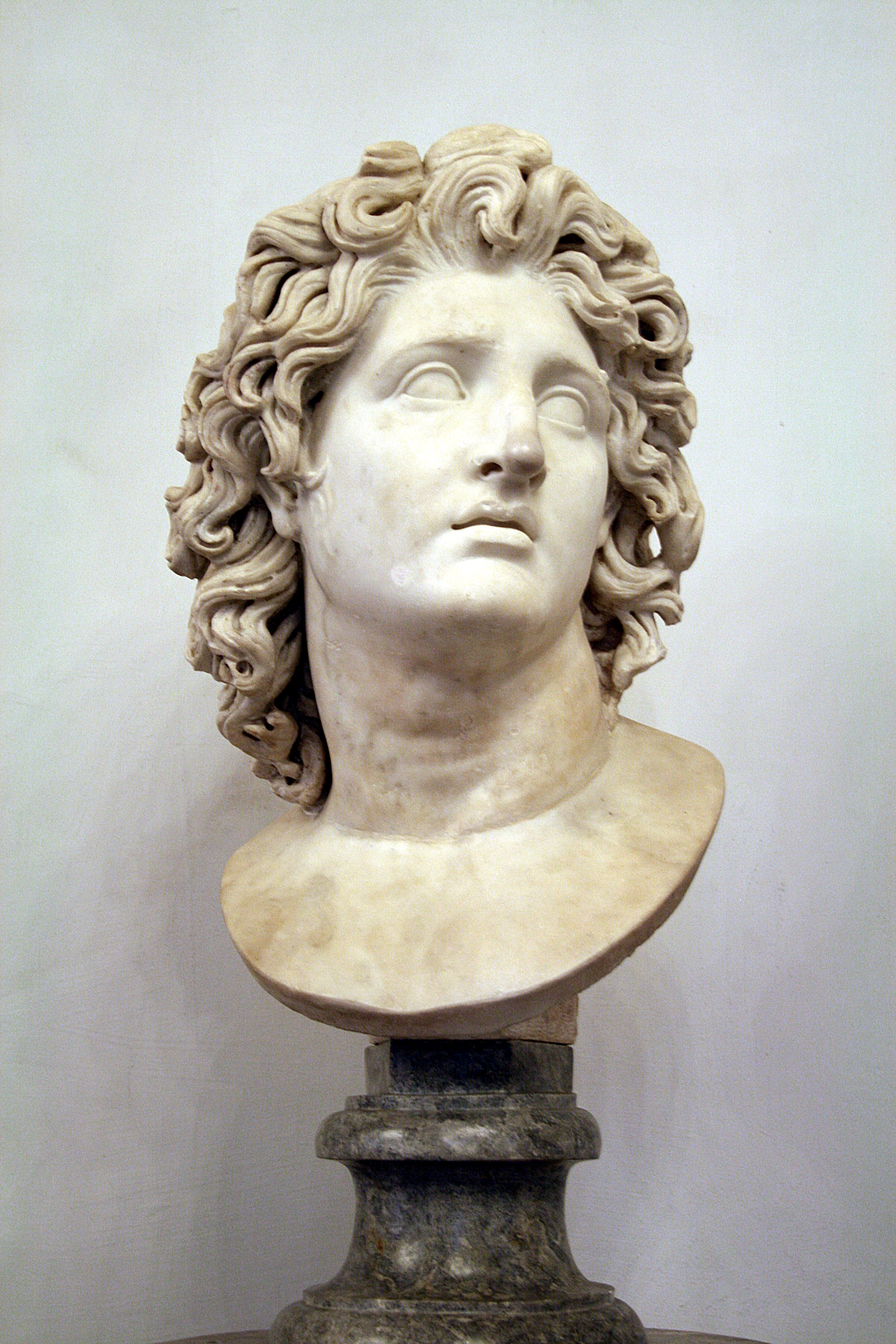 Alexander the Great as Helios. Marble, Roman copy after an Hellenistic original from 3rd–2nd century BCE.